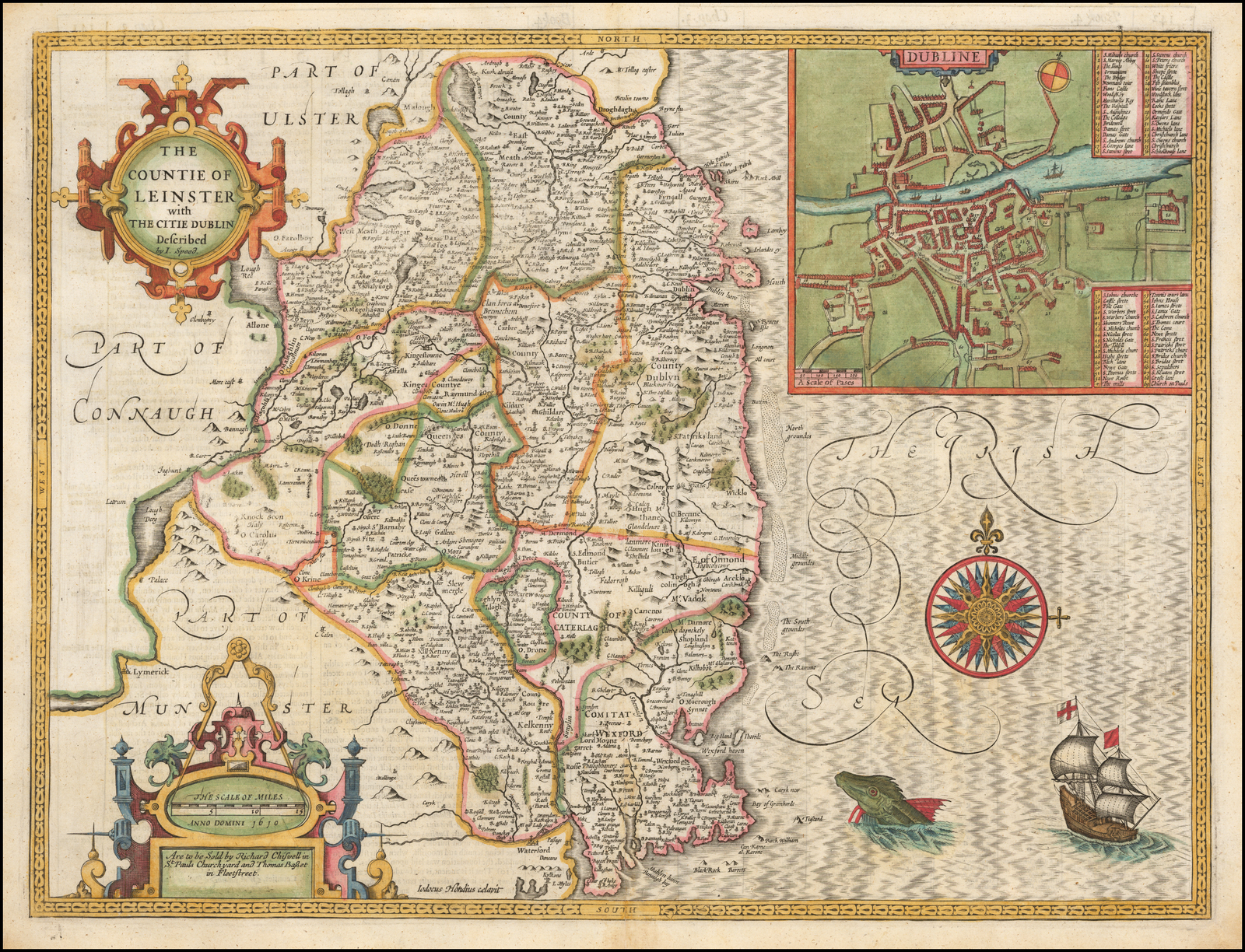 John Speed Map of Leinster 1610